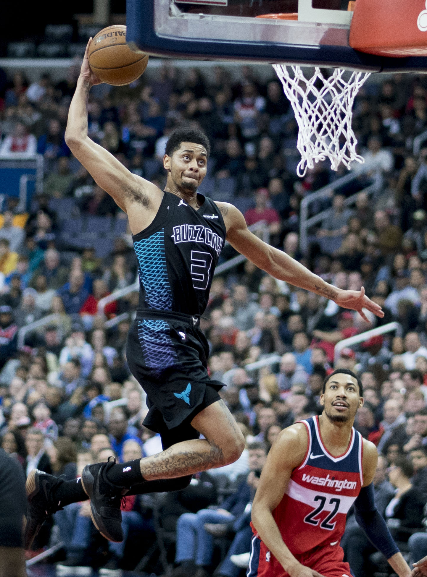 Jeremy Lamb of the Charlotte Hornets dunks against the Washington Wizards on February 23, 2018 at Capital One Arena in Washington, D.C.